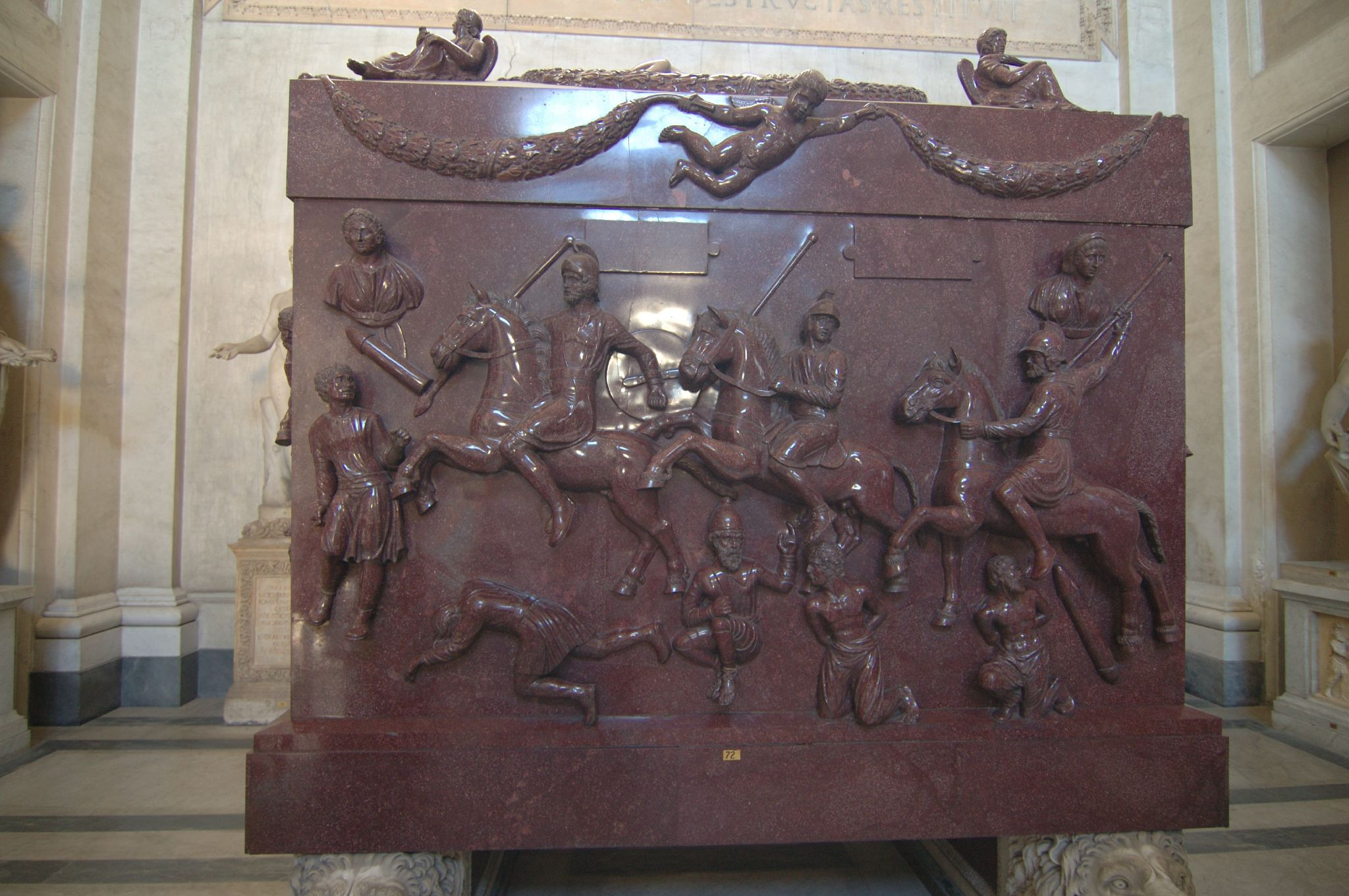 see above